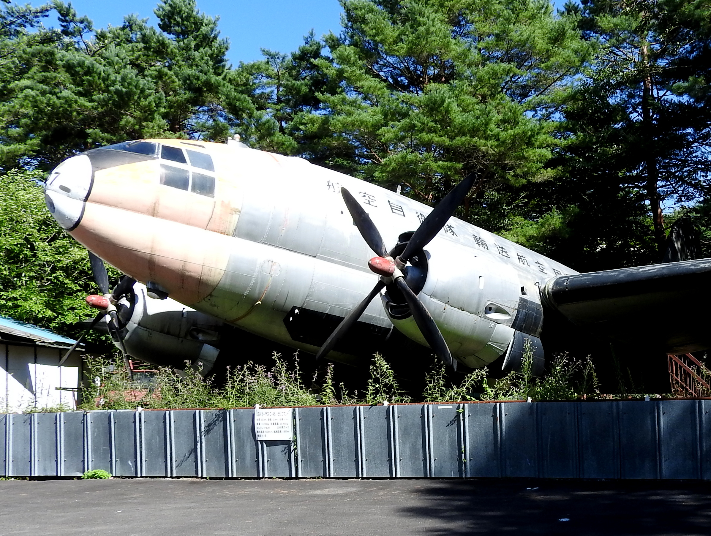 Curtiss C-46D Commando (61-1127) at Kawaguchi Motor Museum, Yamanashi prefecture, Japan